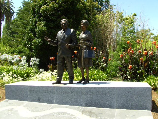 Statue to Pastor Sir Douglas Nicholls and Lady Gladys Nicholls by Louis Laumen